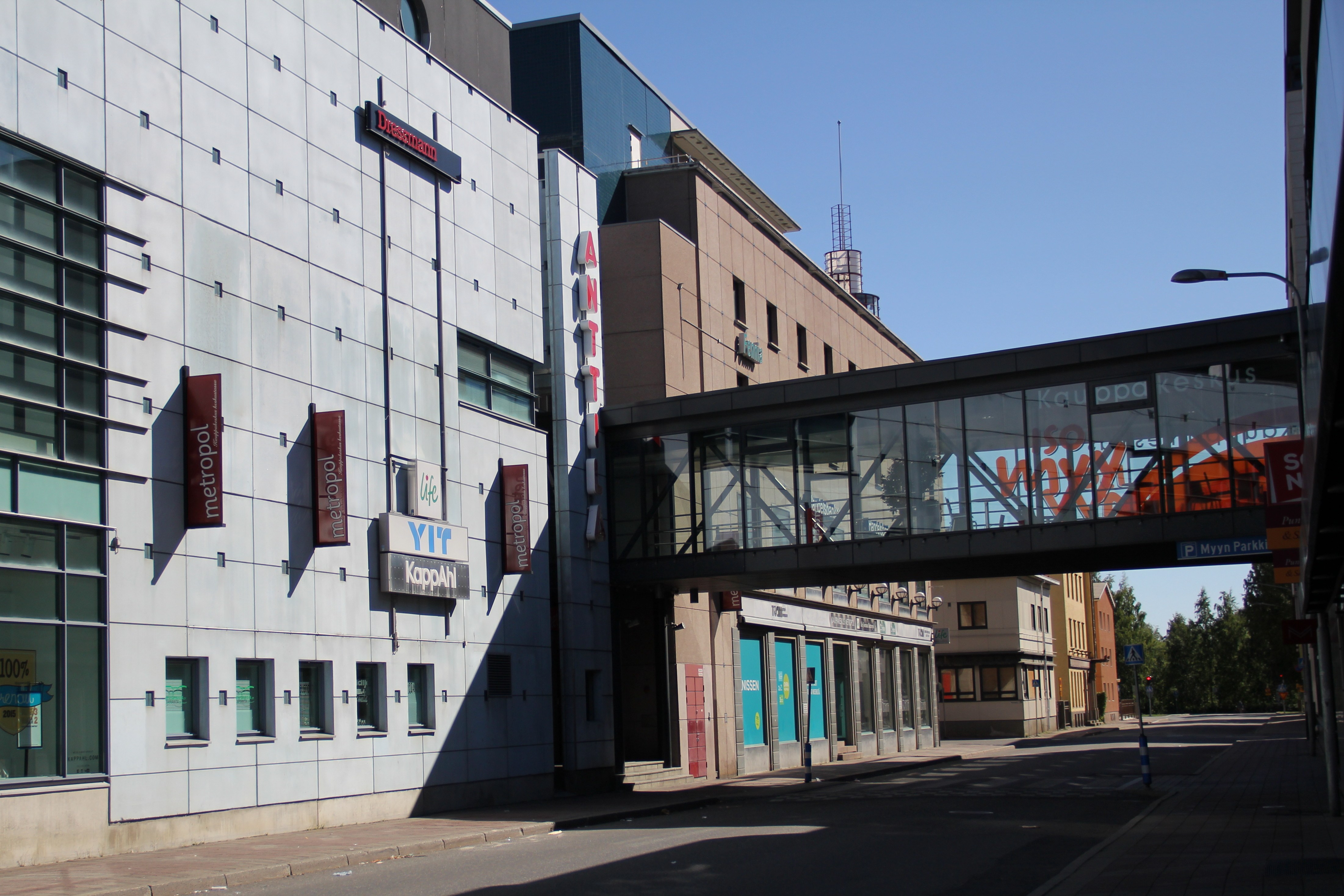 Shopping center Metropol, Joensuu, Finland. - Facade on Niskakatu.